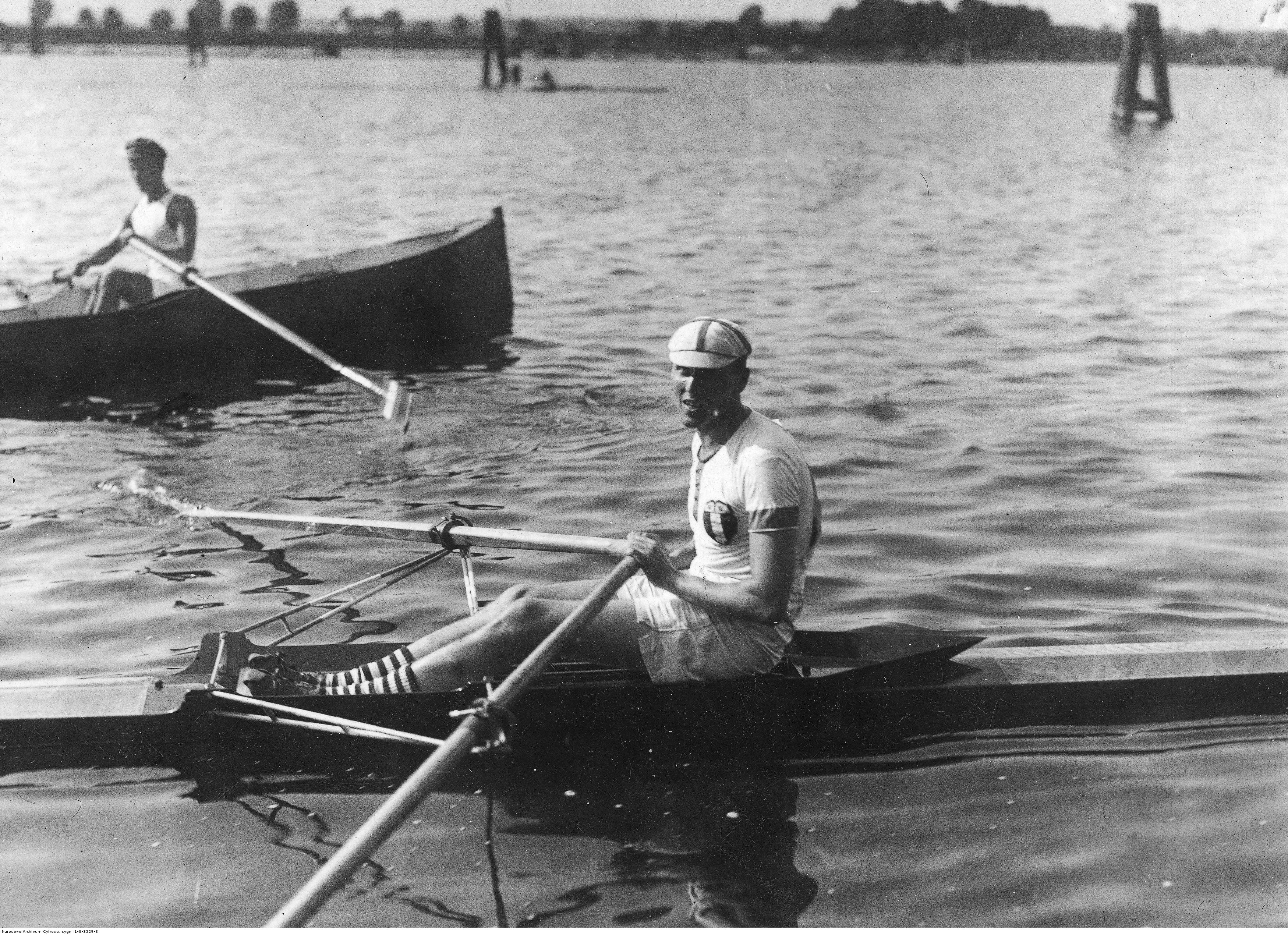 1925 Rowing Championships of Poland in Brdyujście